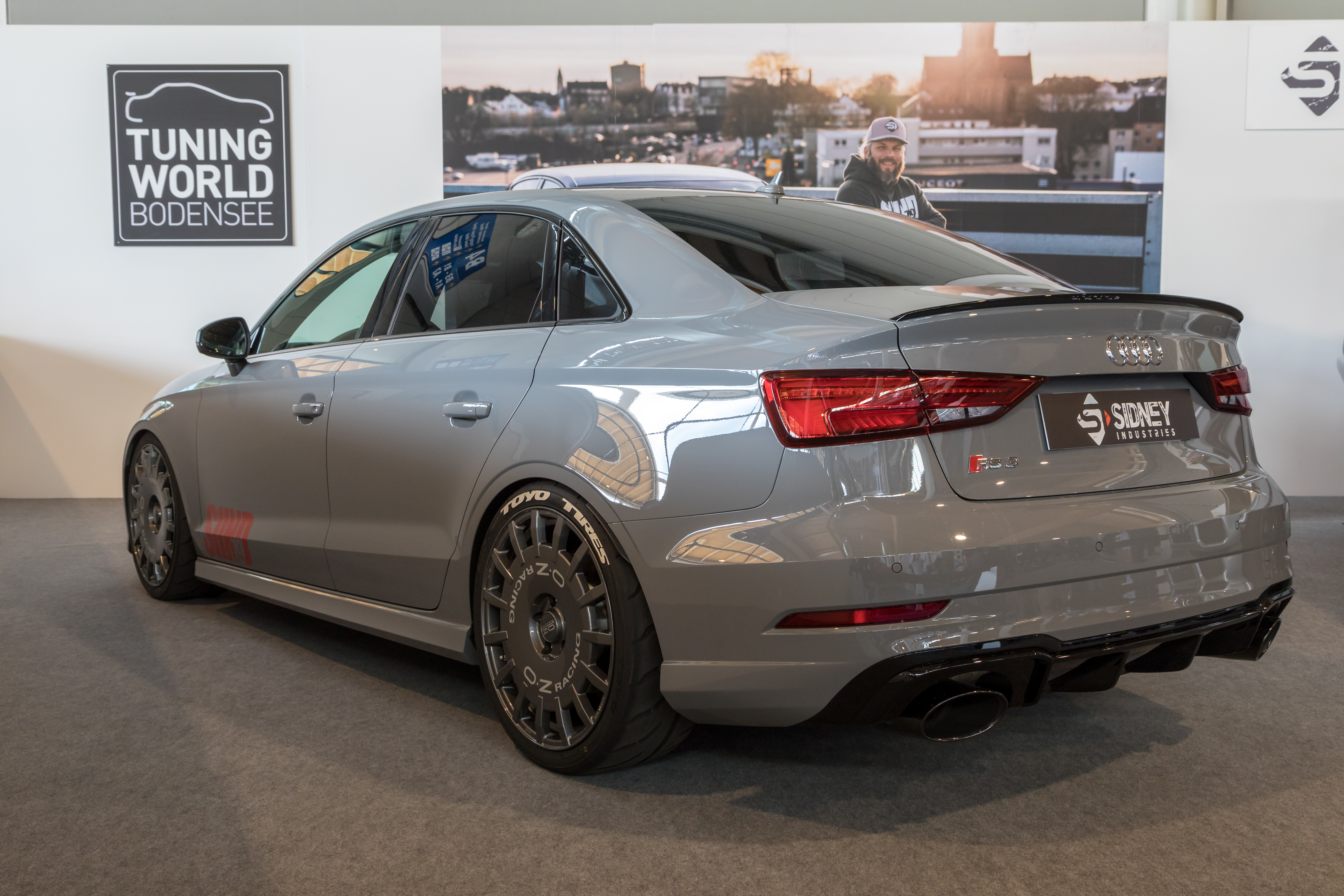 Tuning World Bodensee 2018